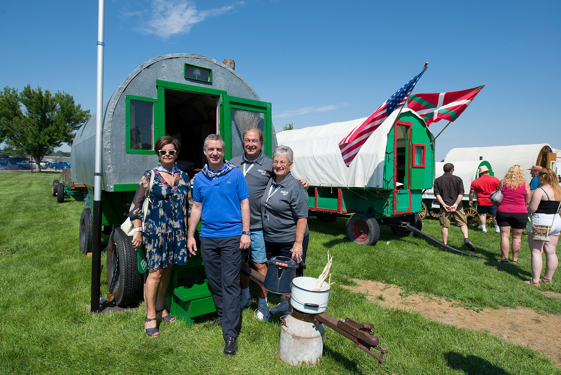 Basque president Iñigo Urkullu in Boise's Jaialdia 2015 Basque festival with wife in a Basque Shepherd Wagon expo